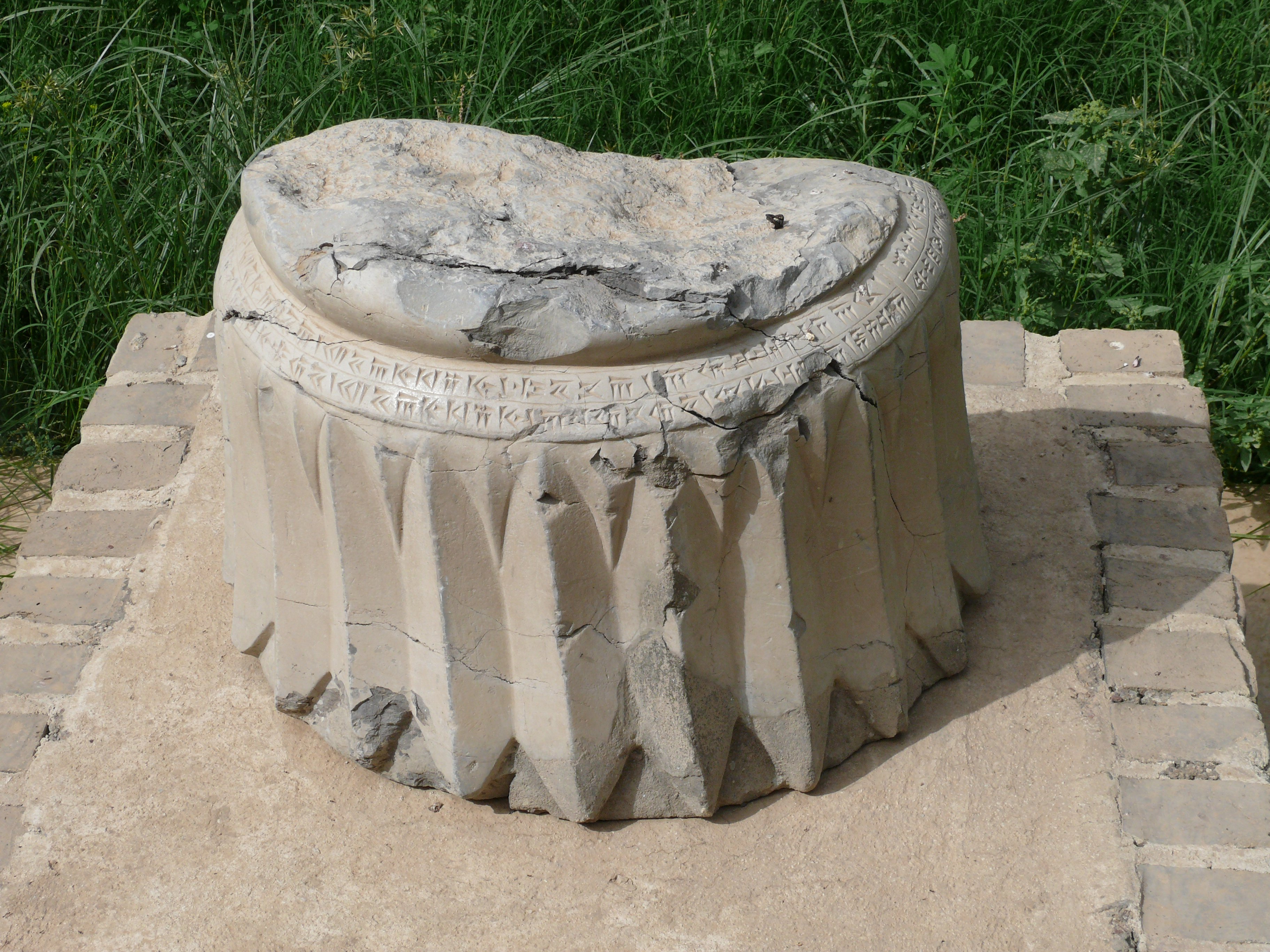 Bell shaped Column base with cuneiform inscriptions, Apadana, Susa. Museum of Shush, Khouzestan, Iran